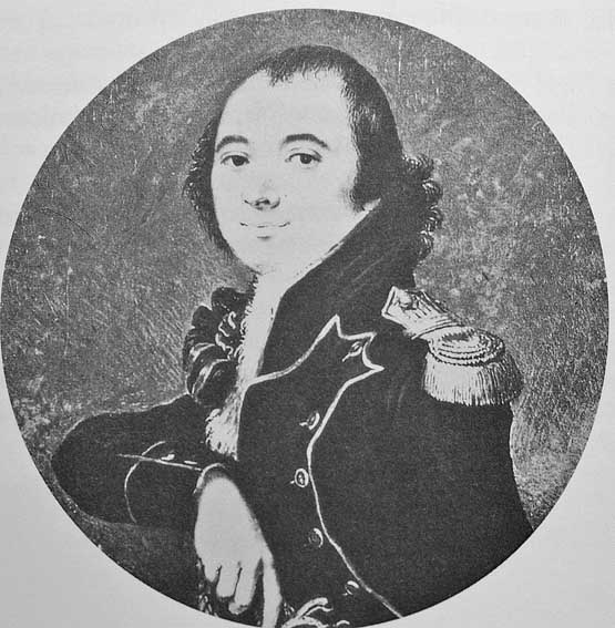 portrait of General François Joseph Kirgener